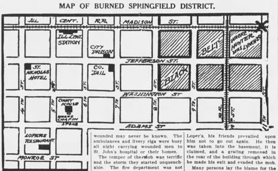 The McHenry Plaindealer. McHenry, Illinois. Aug 20 1908.